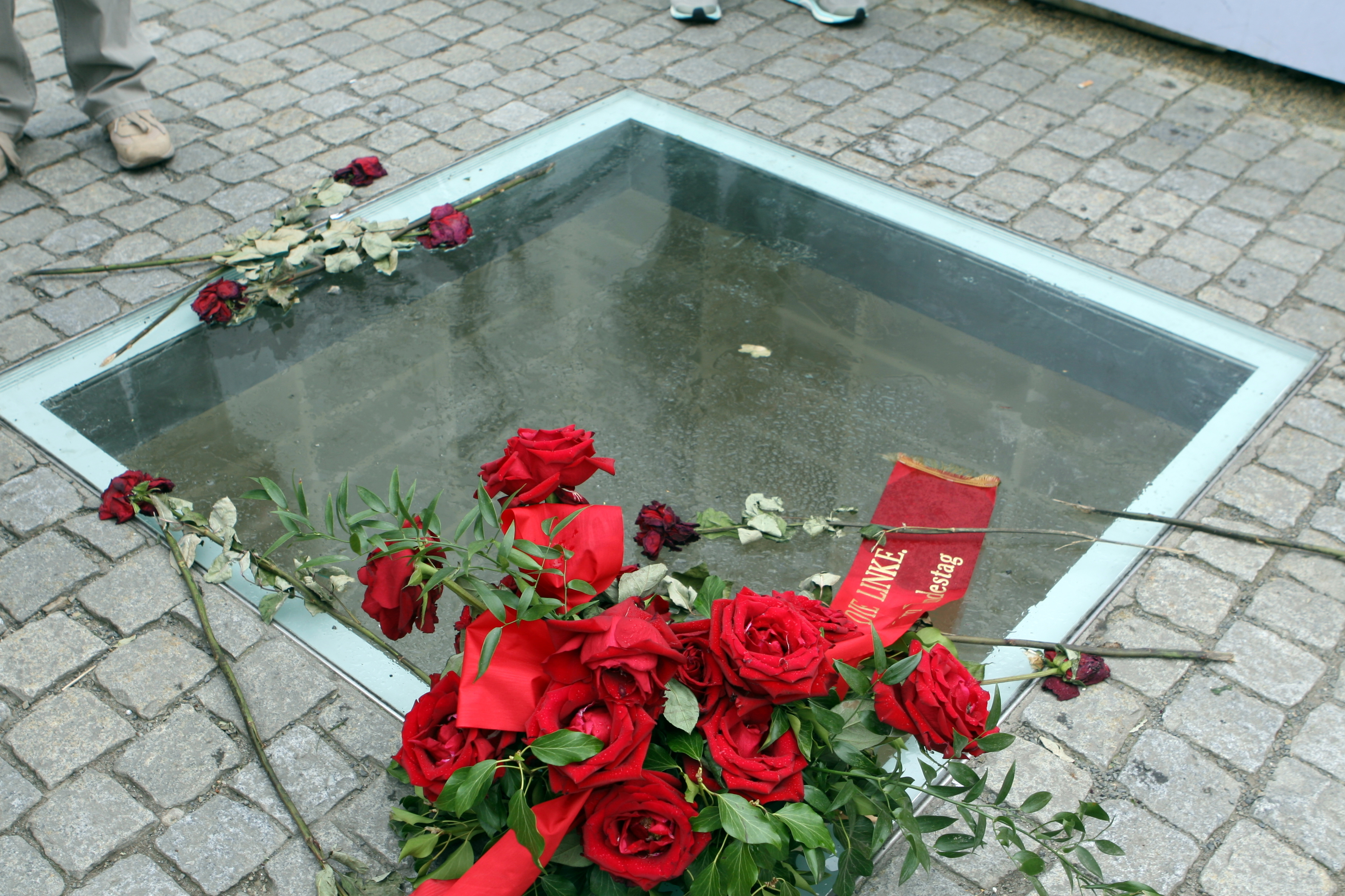 Memorial to the burning of books on the Bebelplatz in Berlin. This memorial is an underground space (5mx5mx5m) containing white empty shelves for 20,000 books. The Israeli artist Micha Ullman created the monument. It was inaugurated on March 20, 1995.